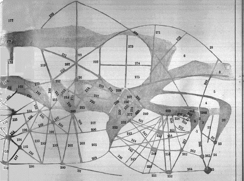 Lowell's map of Mars, from his book Mars, part 2